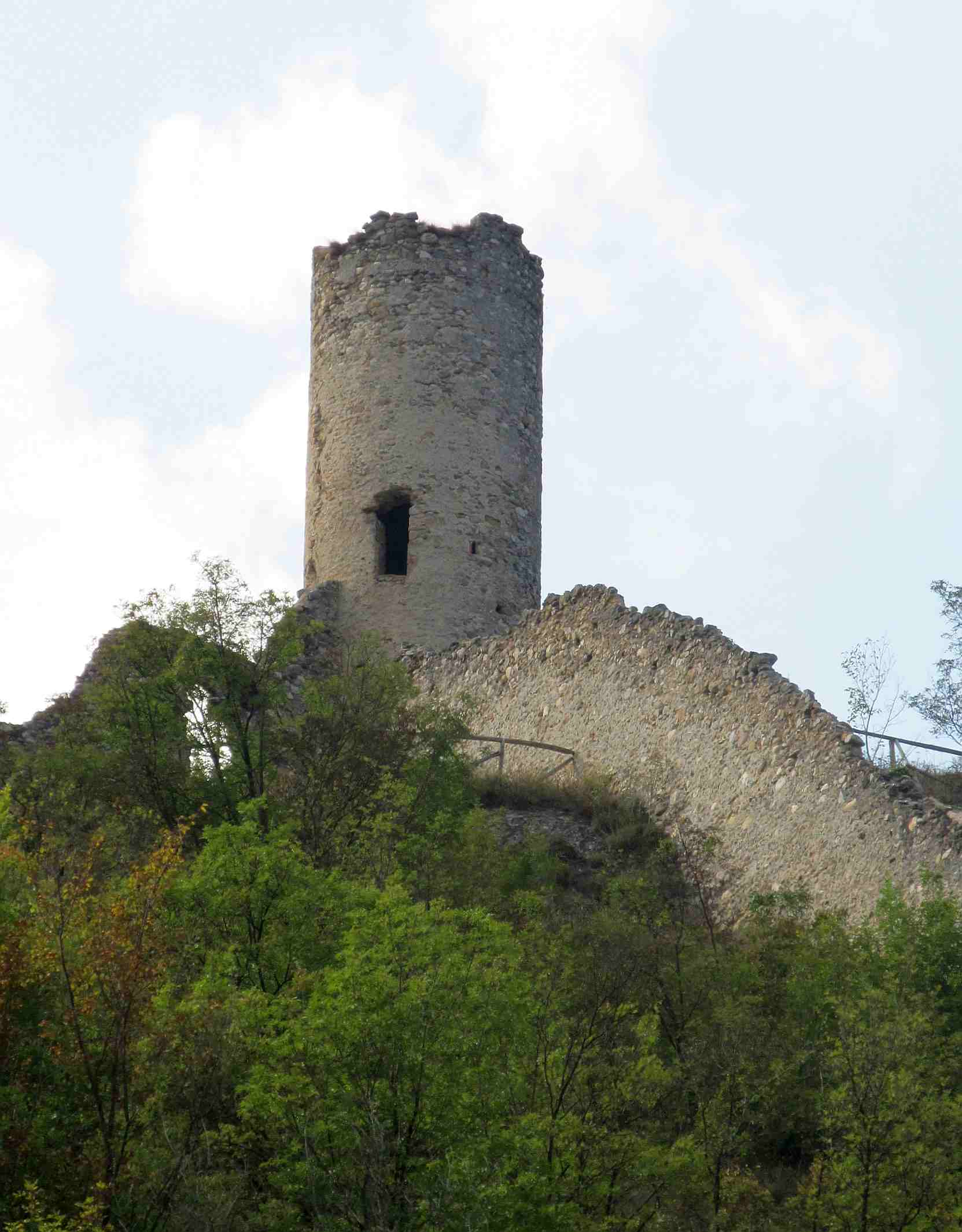 Bagnasco (CN, Italy): middle ages tower